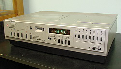 The first USSR made VHS videorecorder